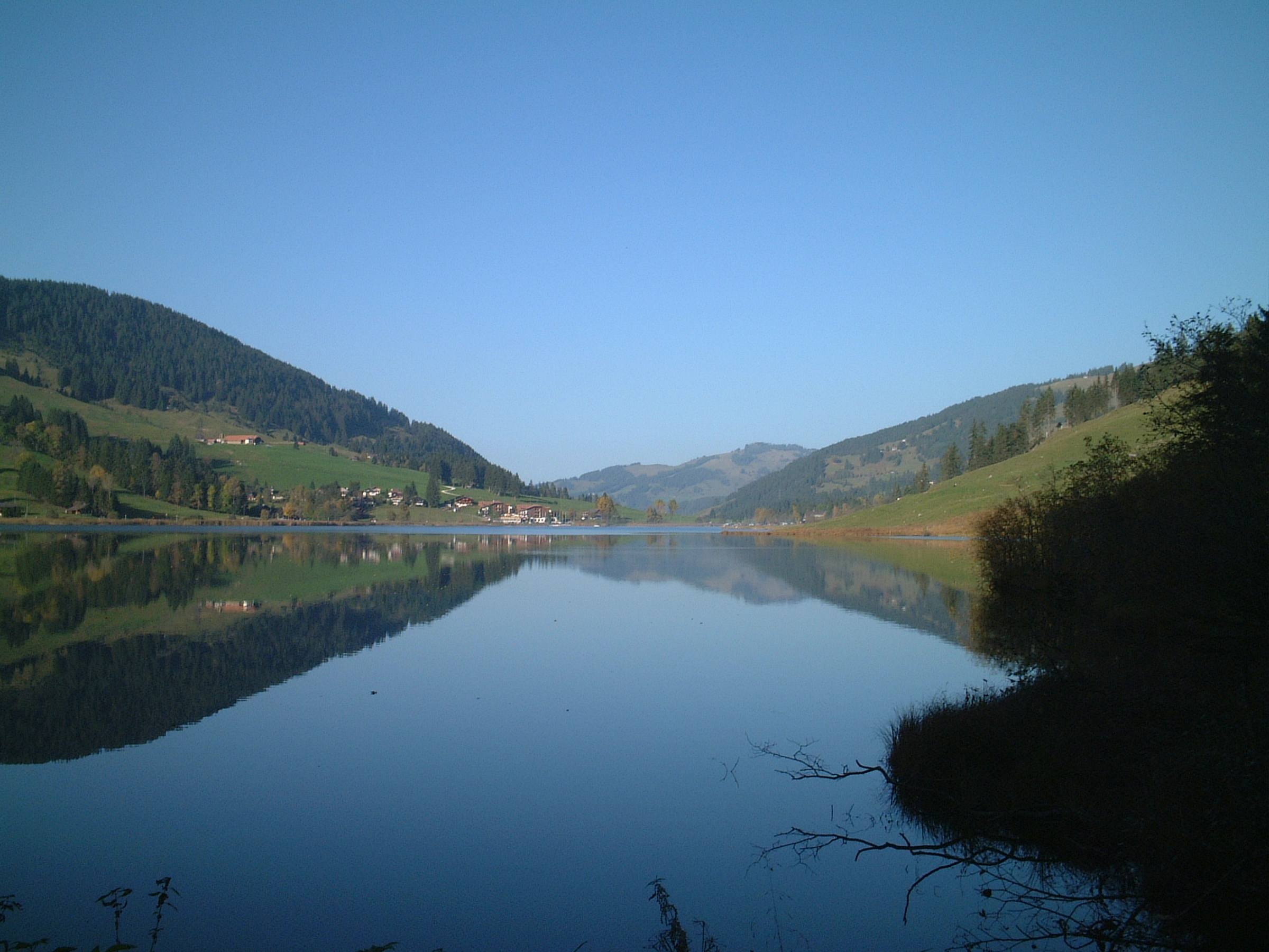 Black lake (English), Schwarzsee (German), Lac Noir (French). Located in the canton of Freiburg, Switzerland.